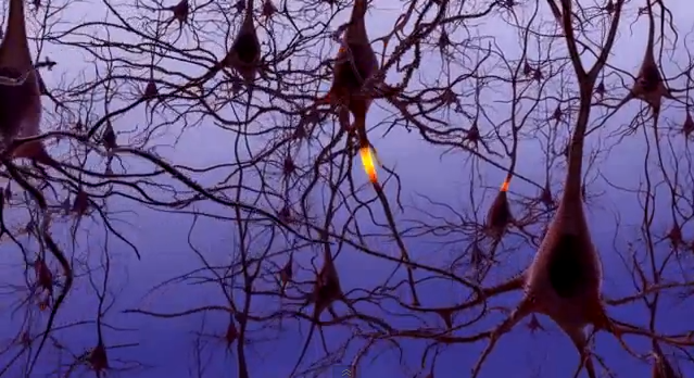 Neural signaling in the human brain.